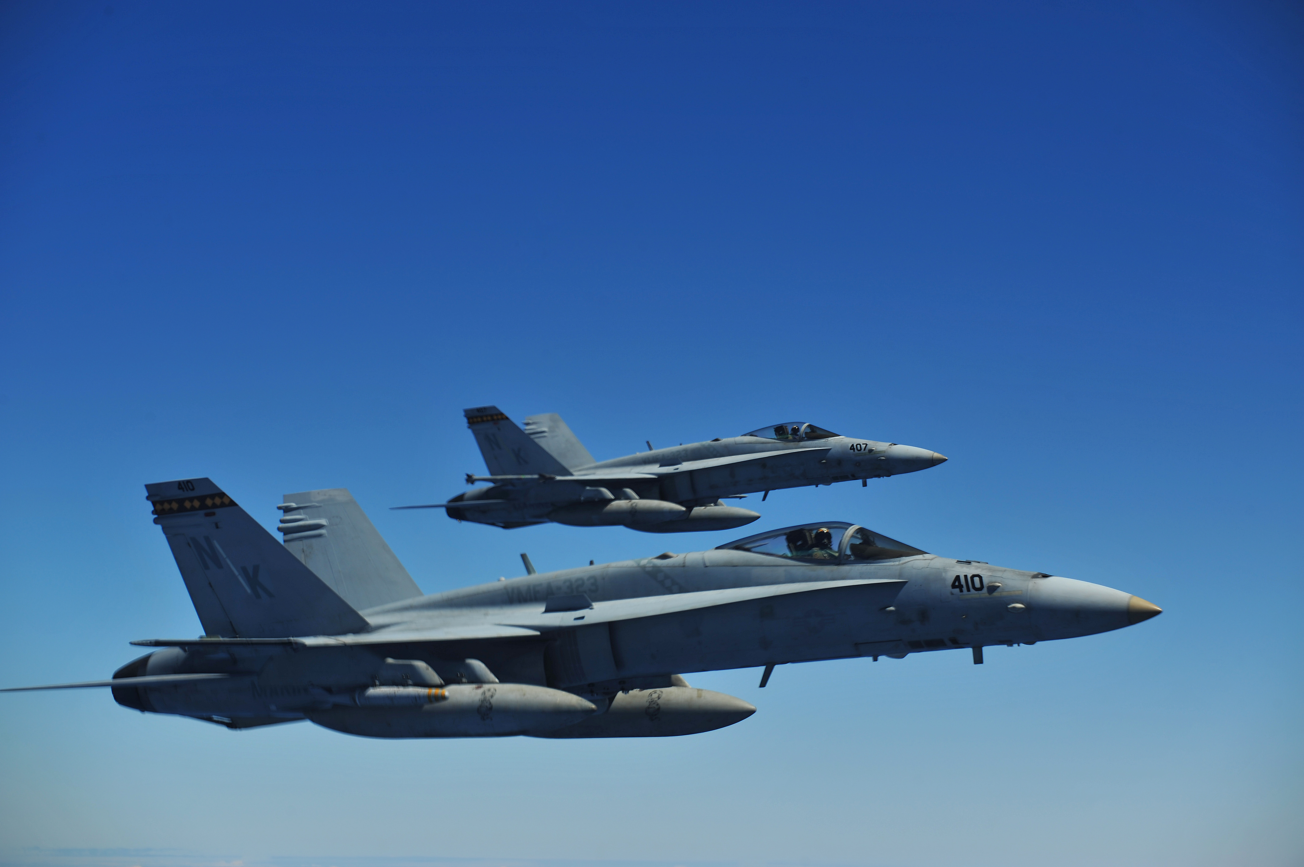 PEARL HARBOR (July 9, 2010) Two Marine Corps F/A-18 Hornets assigned to Marine Fighter Attack Squadron (VMFA) 323 fly a mission during Rim of the Pacific (RIMPAC) 2010 exercises near Joint Base Pearl Harbor-Hickam, Hawaii. RIMPAC is a biennial, multinational exercise designed to strengthen regional partnerships and improve multinational interoperability. (U.S. Air Force photo by Tech. Sgt. Jacob N. Bailey/Released)